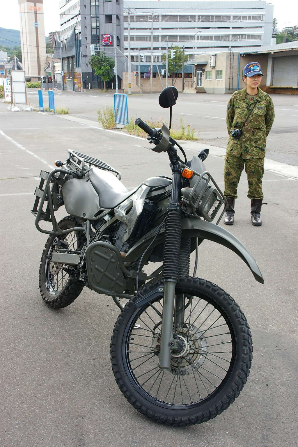 JGSDF Reconnaissance motorbike Kawasaki KLX.